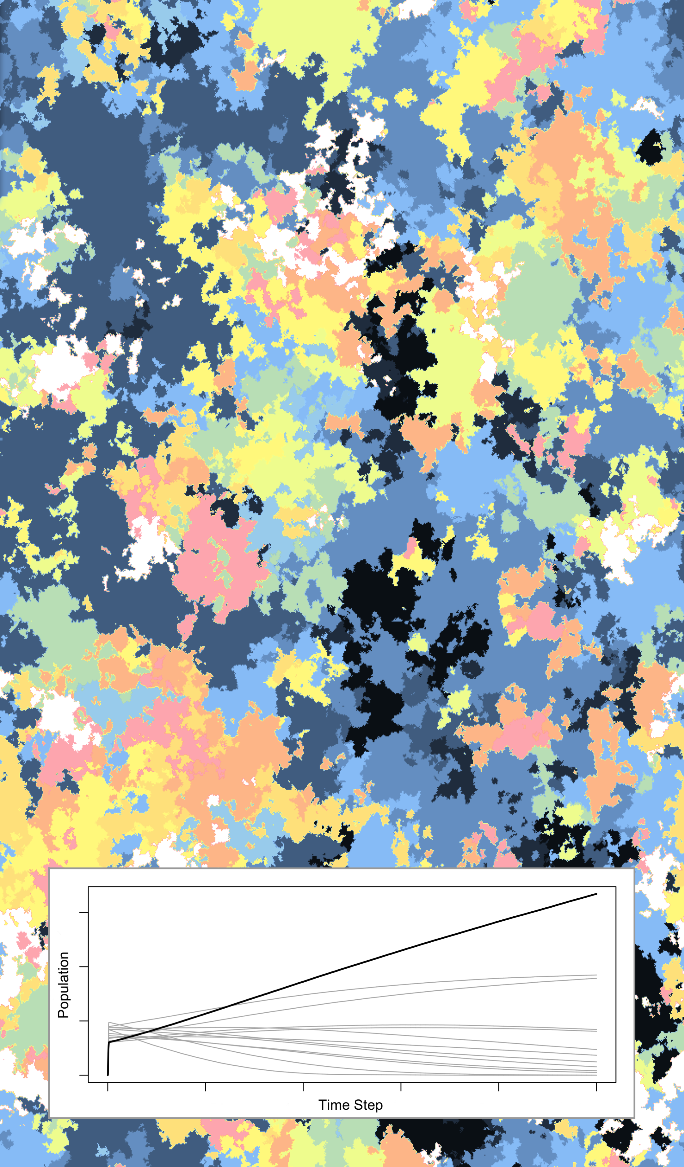 This figure shows the output of a cellular atuomata model of the spatial arrangement of 13 genotypes of an invasive grass (Phalaris arundinacea). The inset shows the population levels versus time of the same 13 genotypes in a differential equations model.